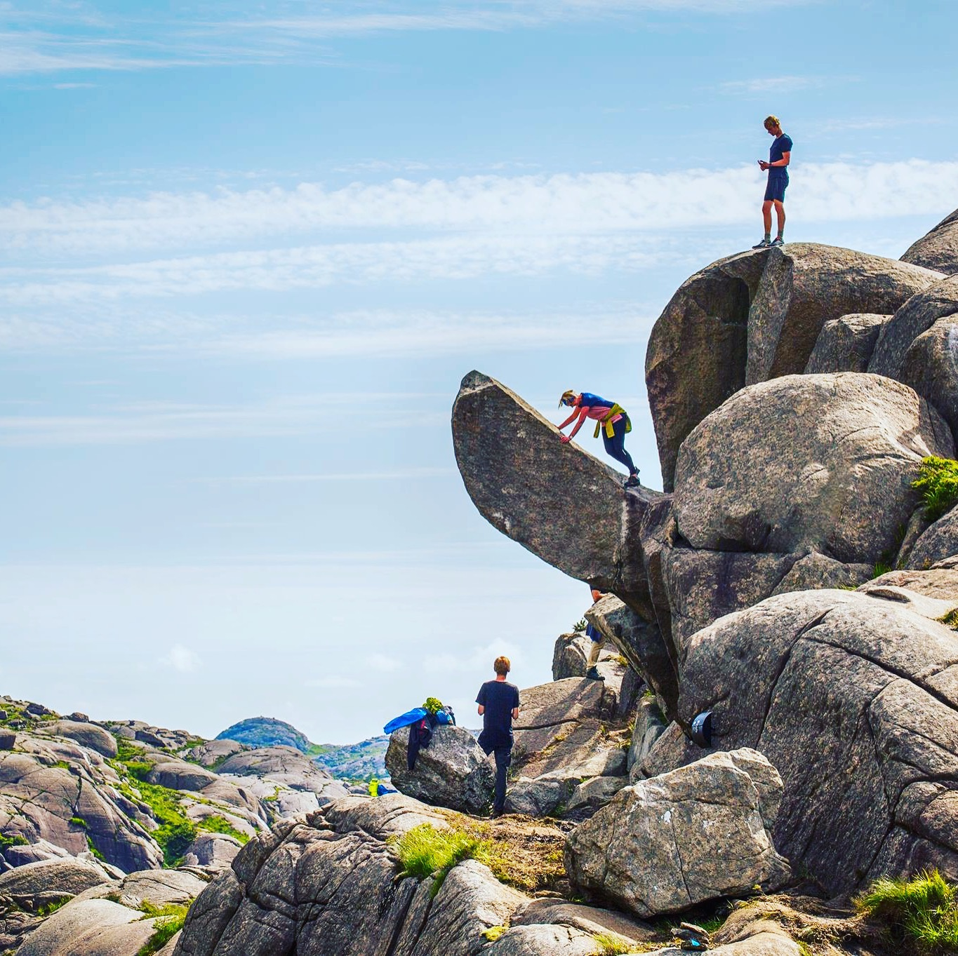 Trollpikken rock formation in Magma UNESCO Global Geopark